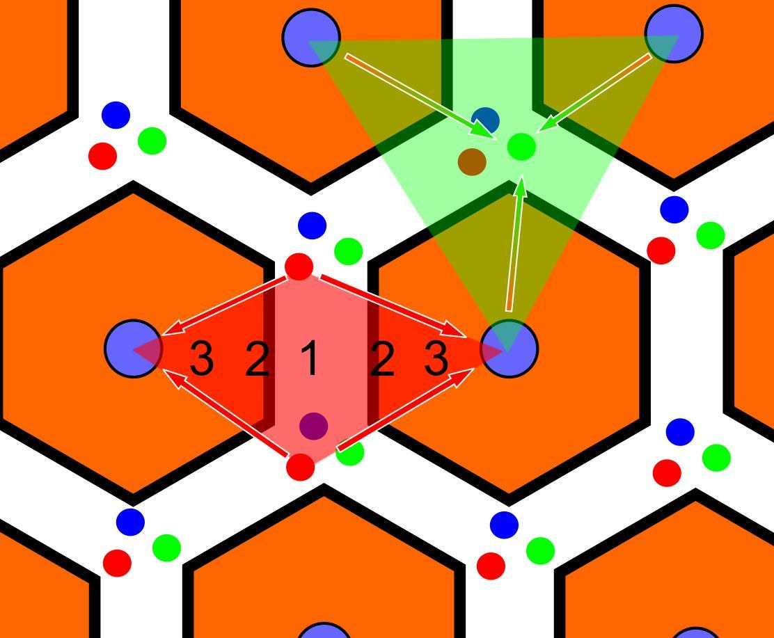 A scheme of the liver structure.